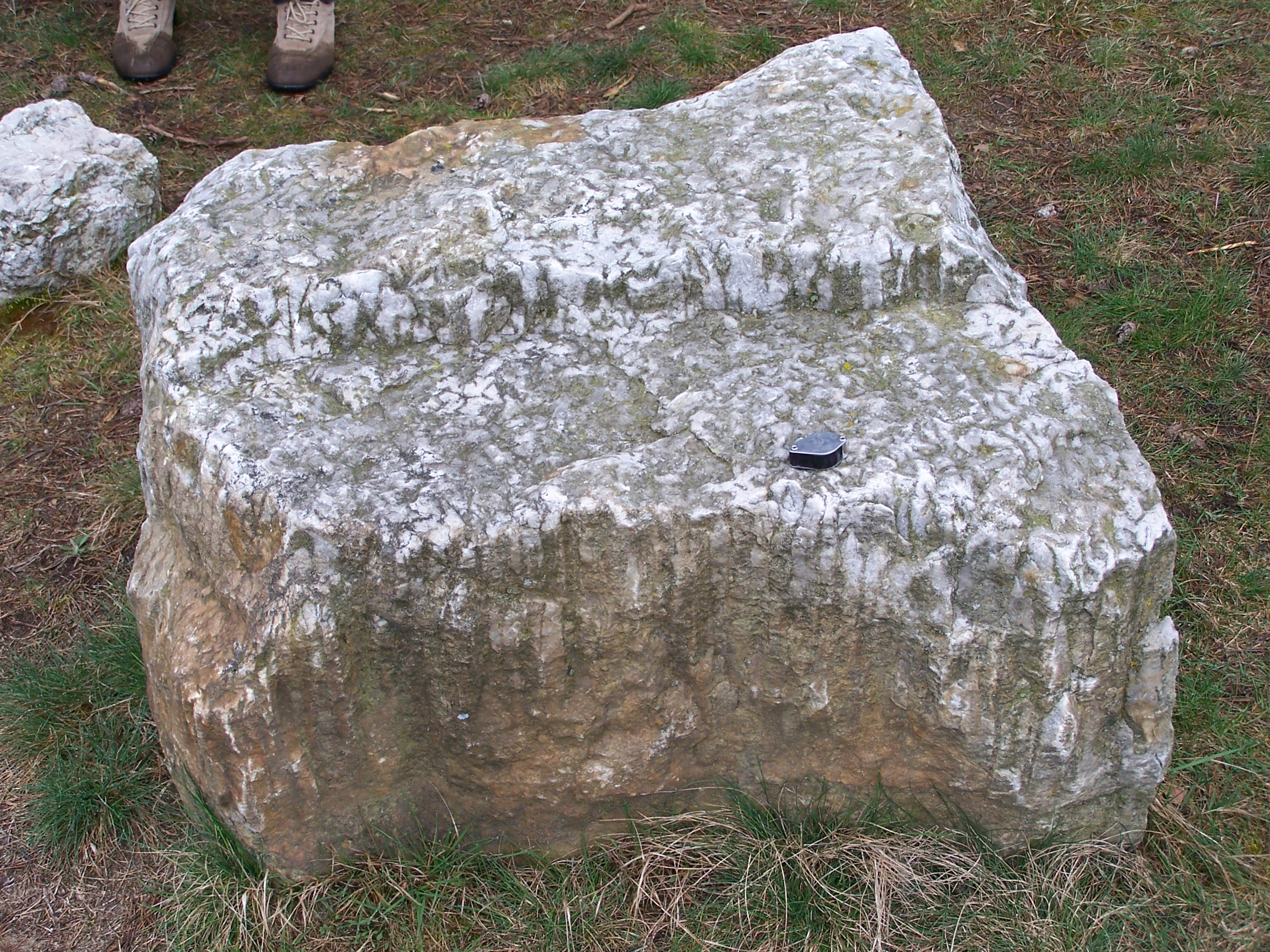 Skolithos trace fossil in quartzsandstone, Krakow am See, Germany